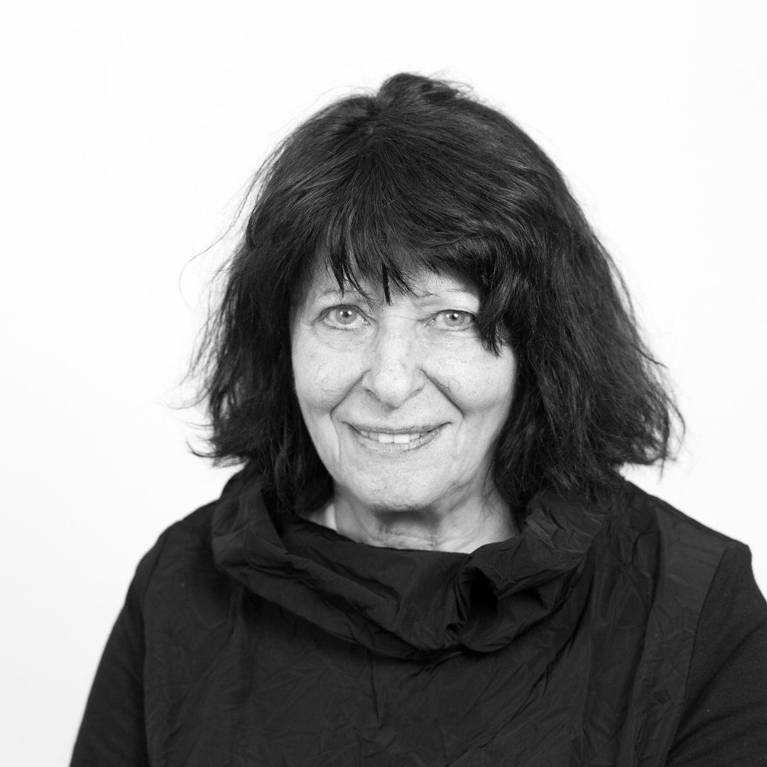 Judy Hoffman in Zony Maya Forum, Mexico City. 11 April, 2016. Picture by Delia Martínez for Ambulante Festival.